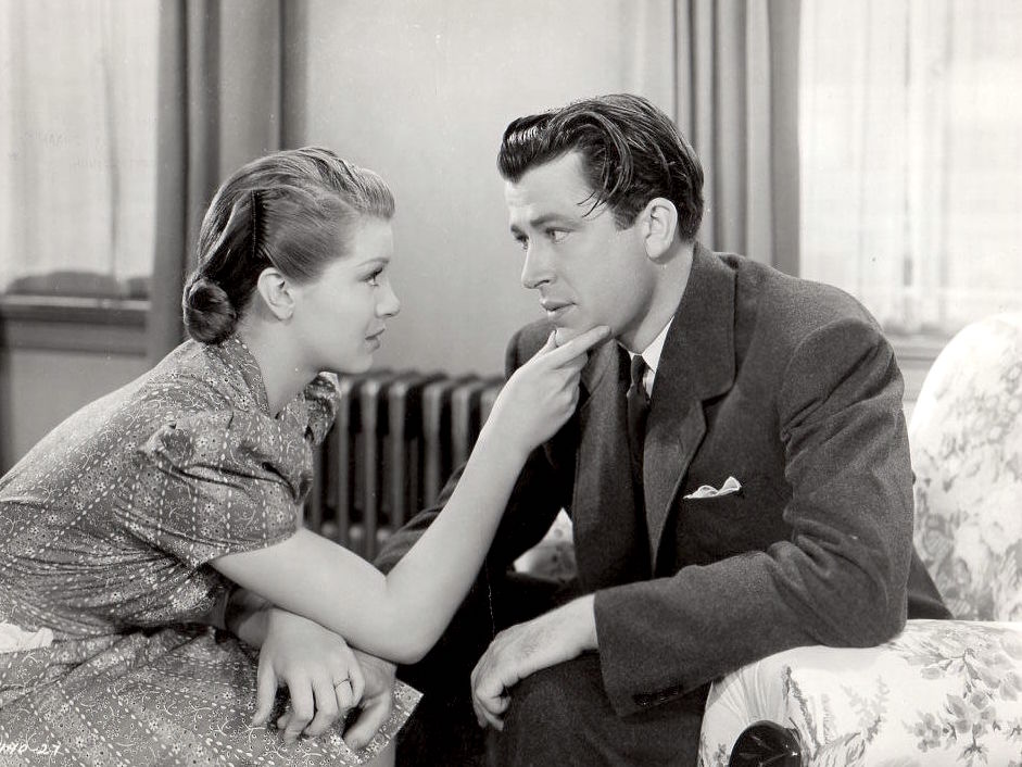 Lana Turner and John Shelton in We Who Are Young lobby card.